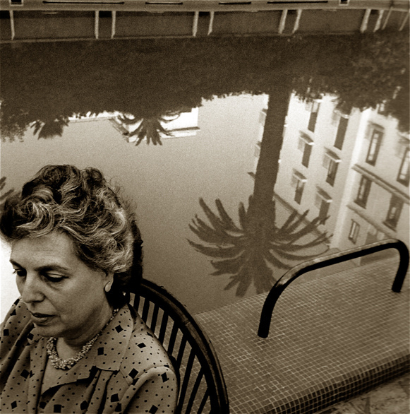 Maria Tipo portrait - Augusto De Luca photo